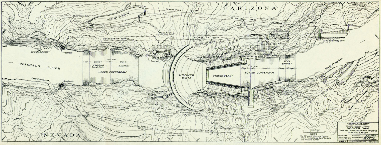 Hoover Dam plan. 1930